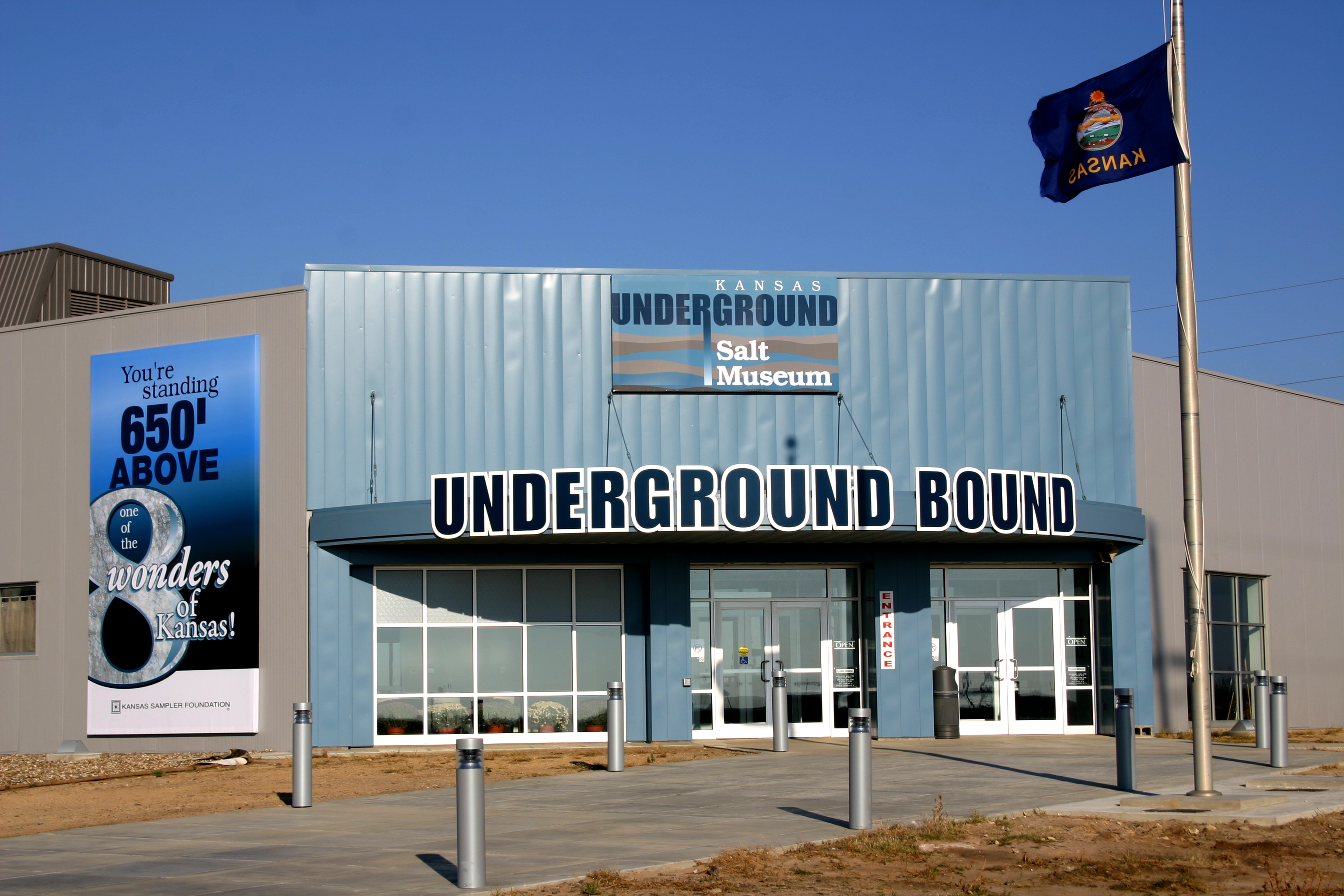 Exterior image of the Kansas Underground Salt Museum